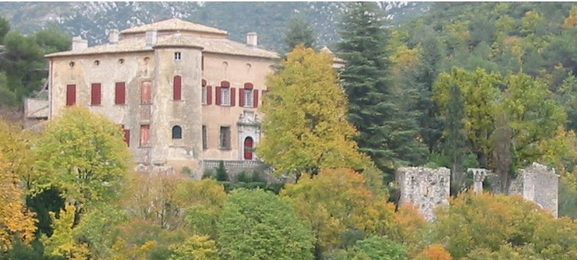 Cropped image of the Chateau of Vauvenargues